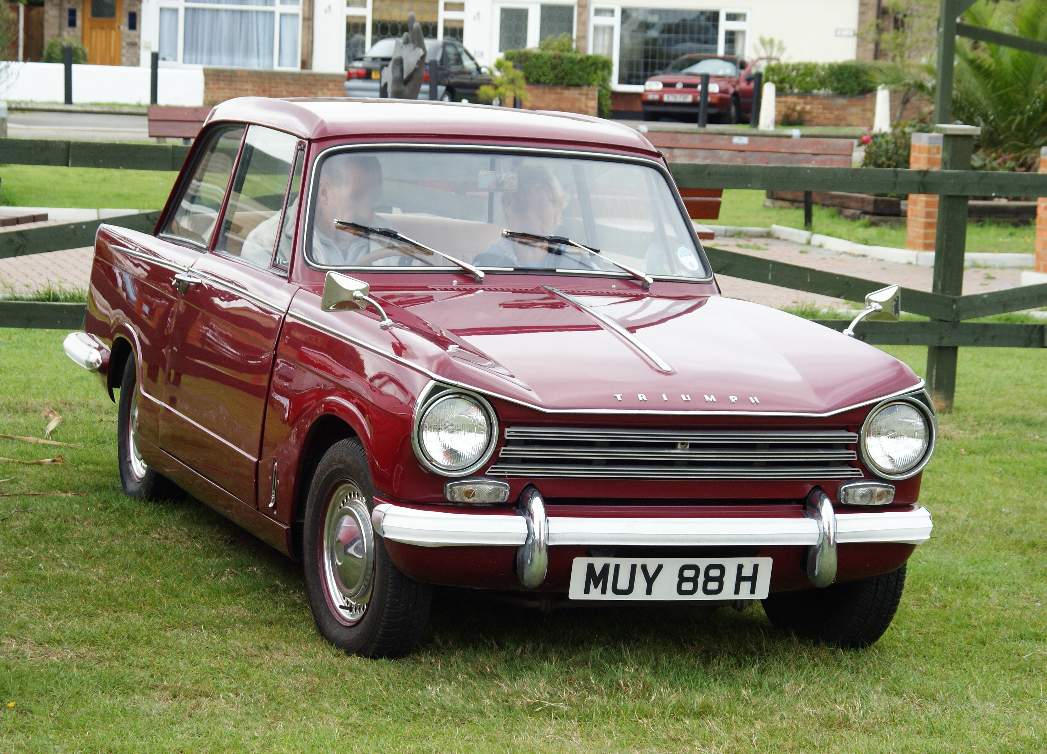 1970 Triumph Herald 13/60 (1296cc)